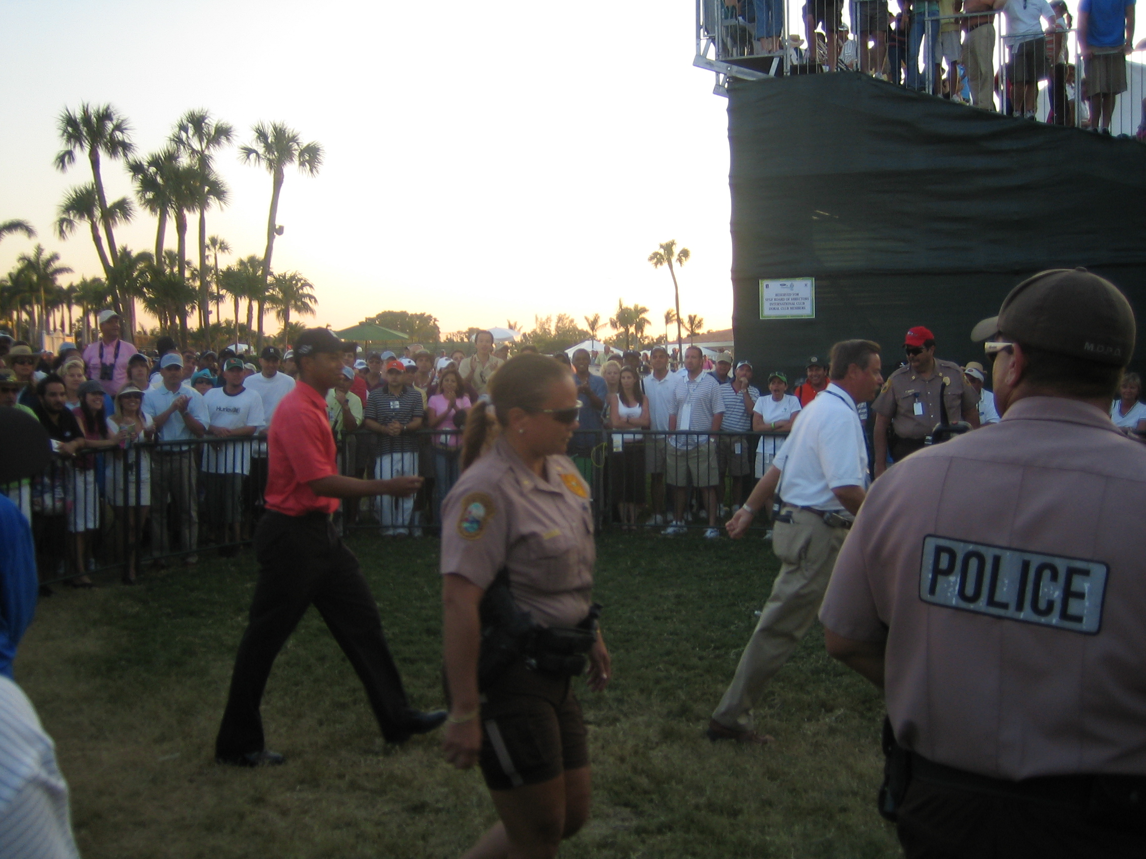 Tiger Woods after winning the 2006 Ford Championship at Doral in Miami, Florida